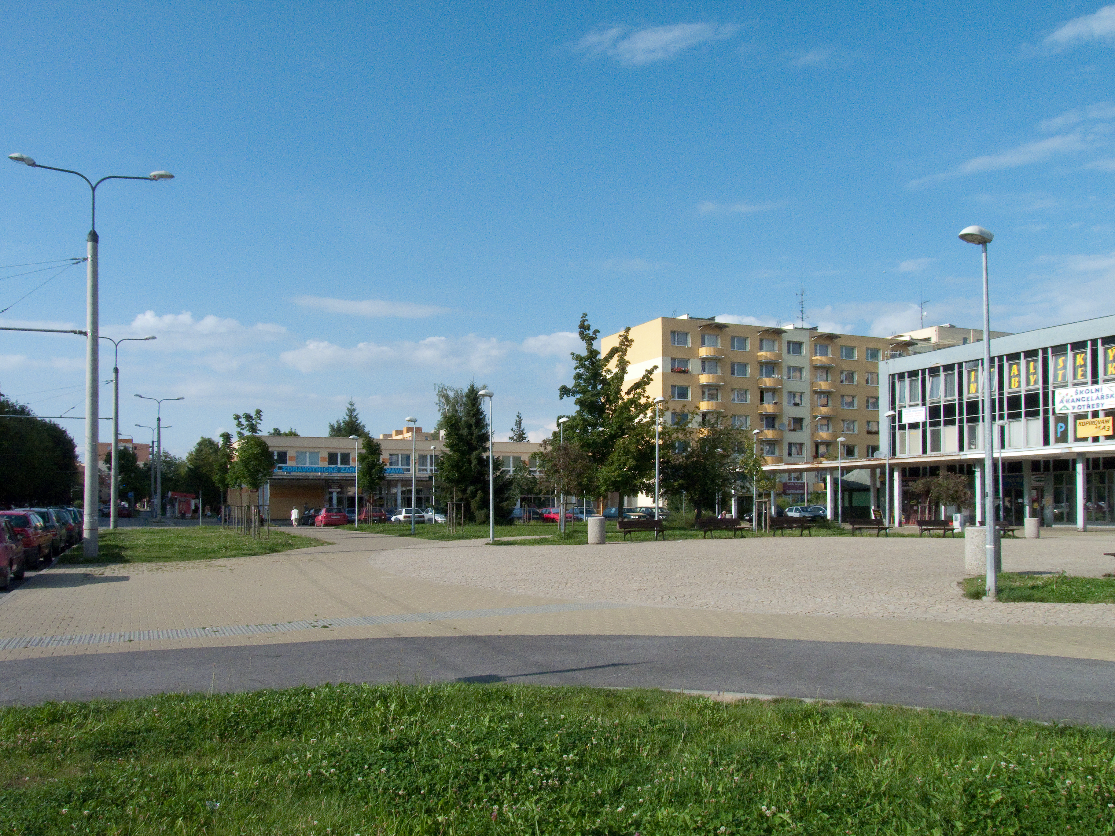 Shopping centre in Čtyři Dvory, part of České Budějovice, Czech Republic